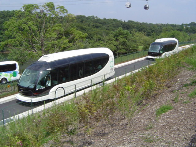 TOYOTA IMTS in Nagakute Area of Expo 2005 Aichi Japan